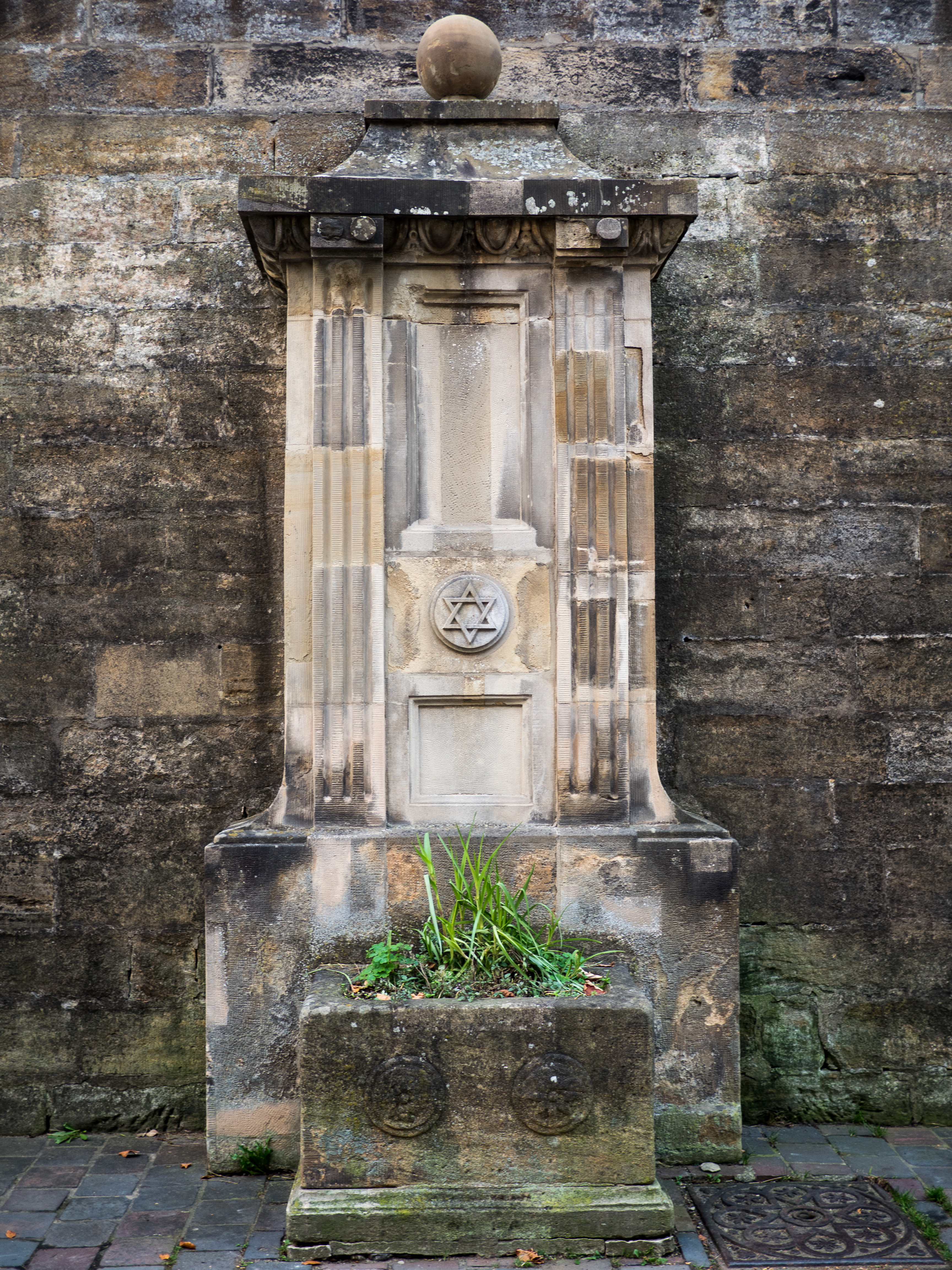 Hofwaschbunnen in Bamberg below the Michaelsberg monastery